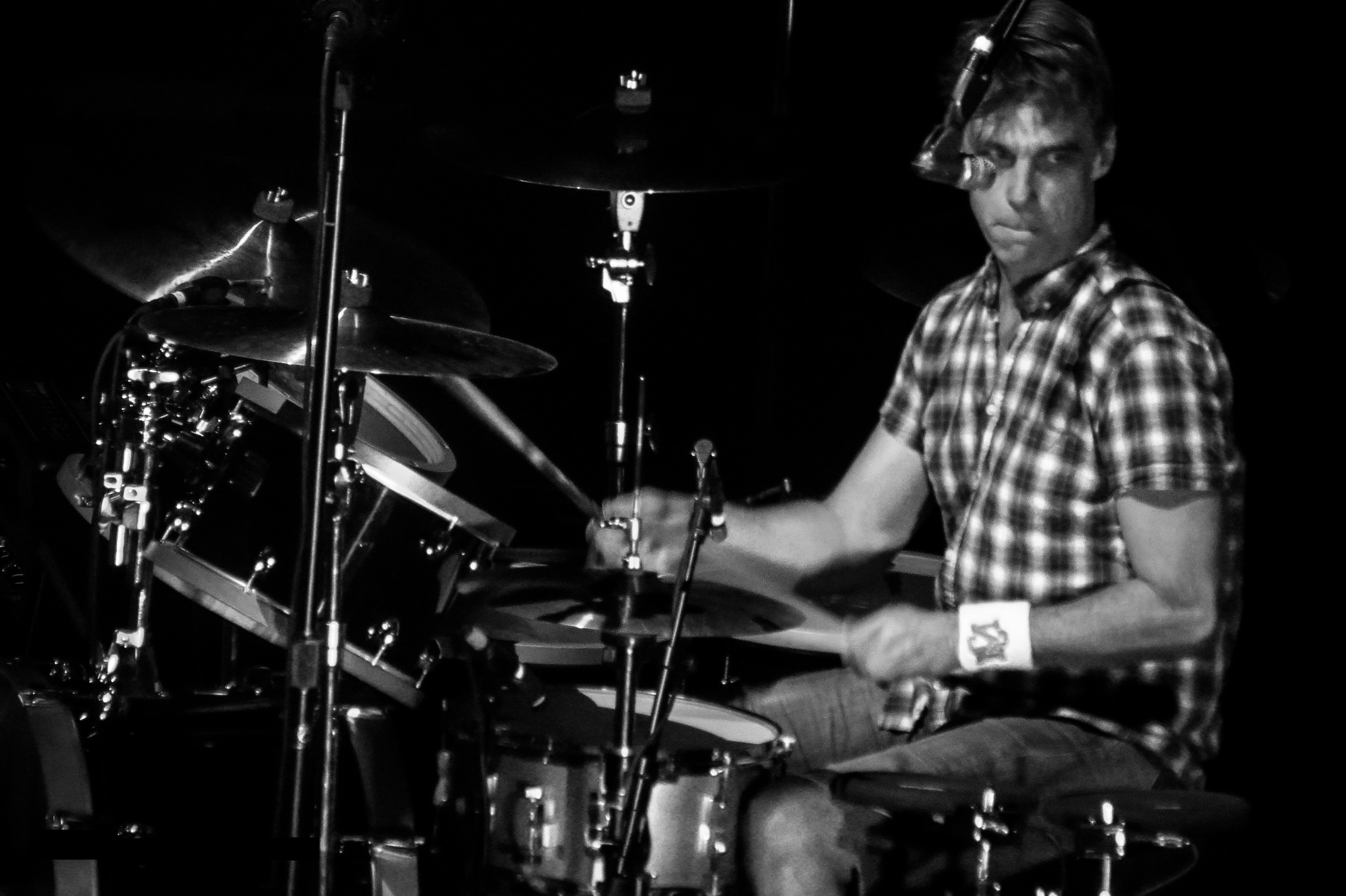 Matt Cameron during a show with Soundgarden at the DAR Constitution Hall in Washington, D.C. on January 18, 2013.